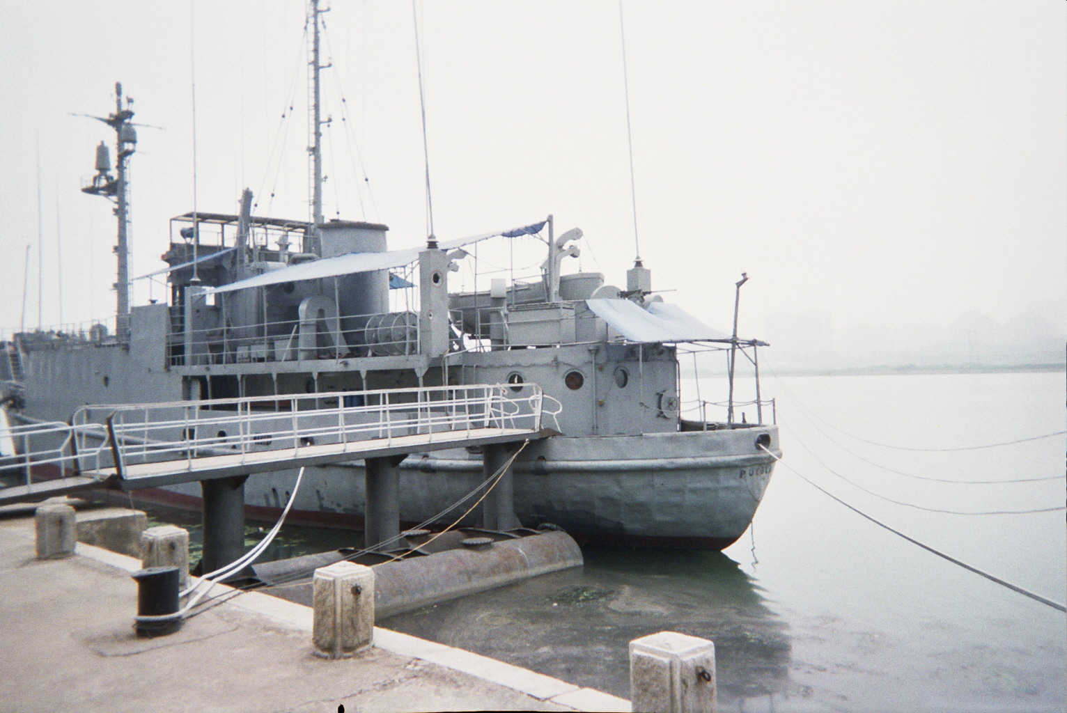 US spyship Pueblo